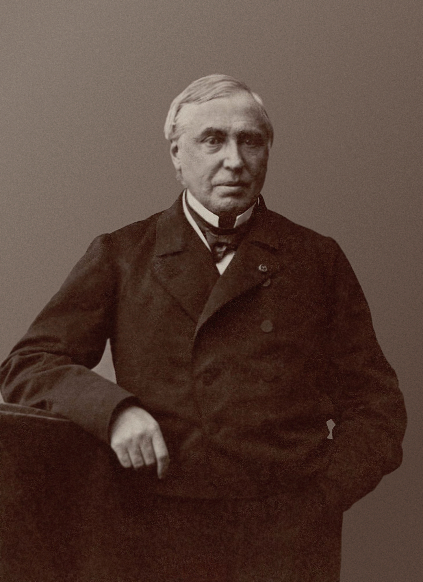 Auguste Nélaton (1807 - 1873), french physician and surgeon.